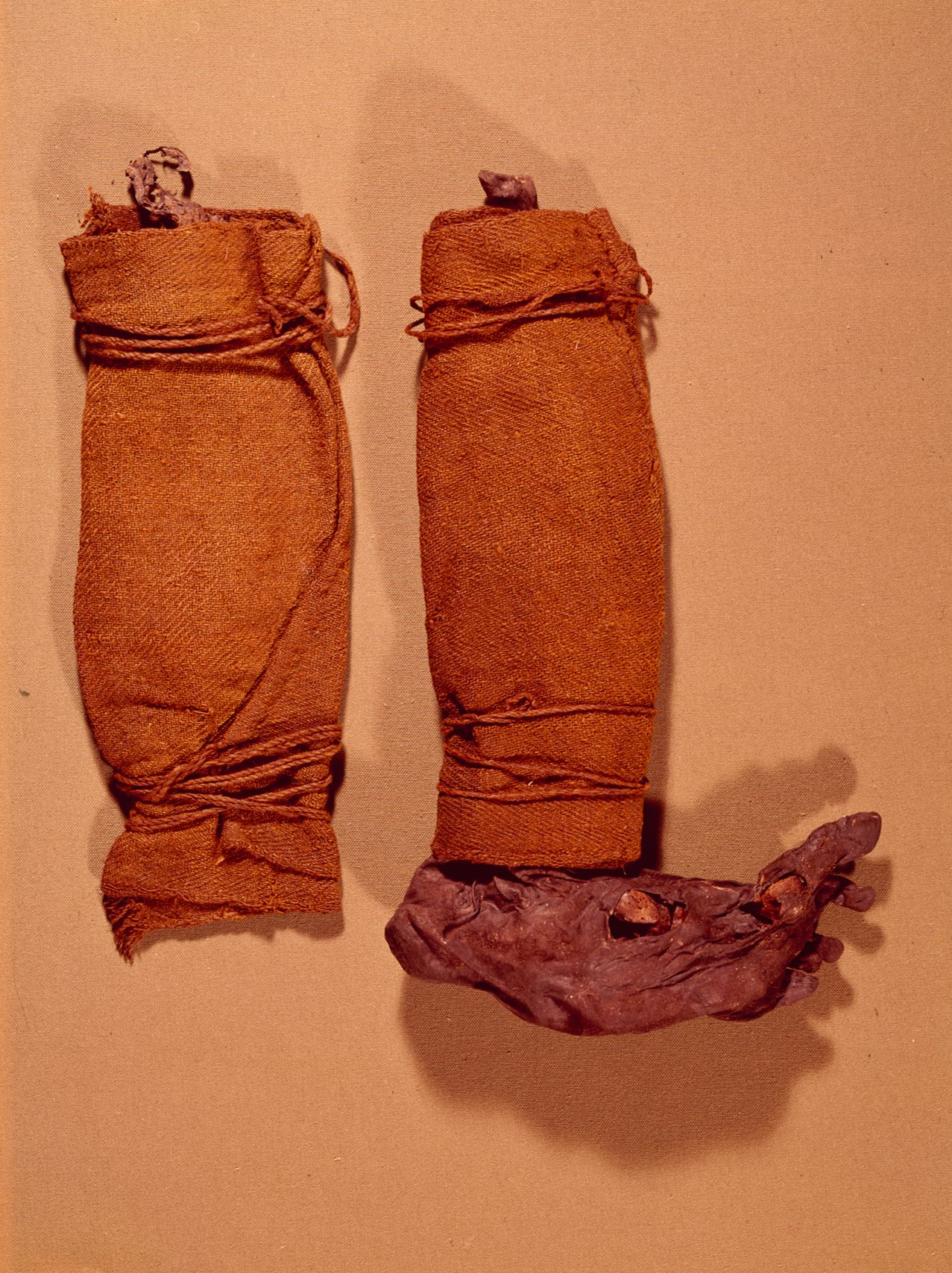 Foot with puttees of bog body Søgårds Mose Man.